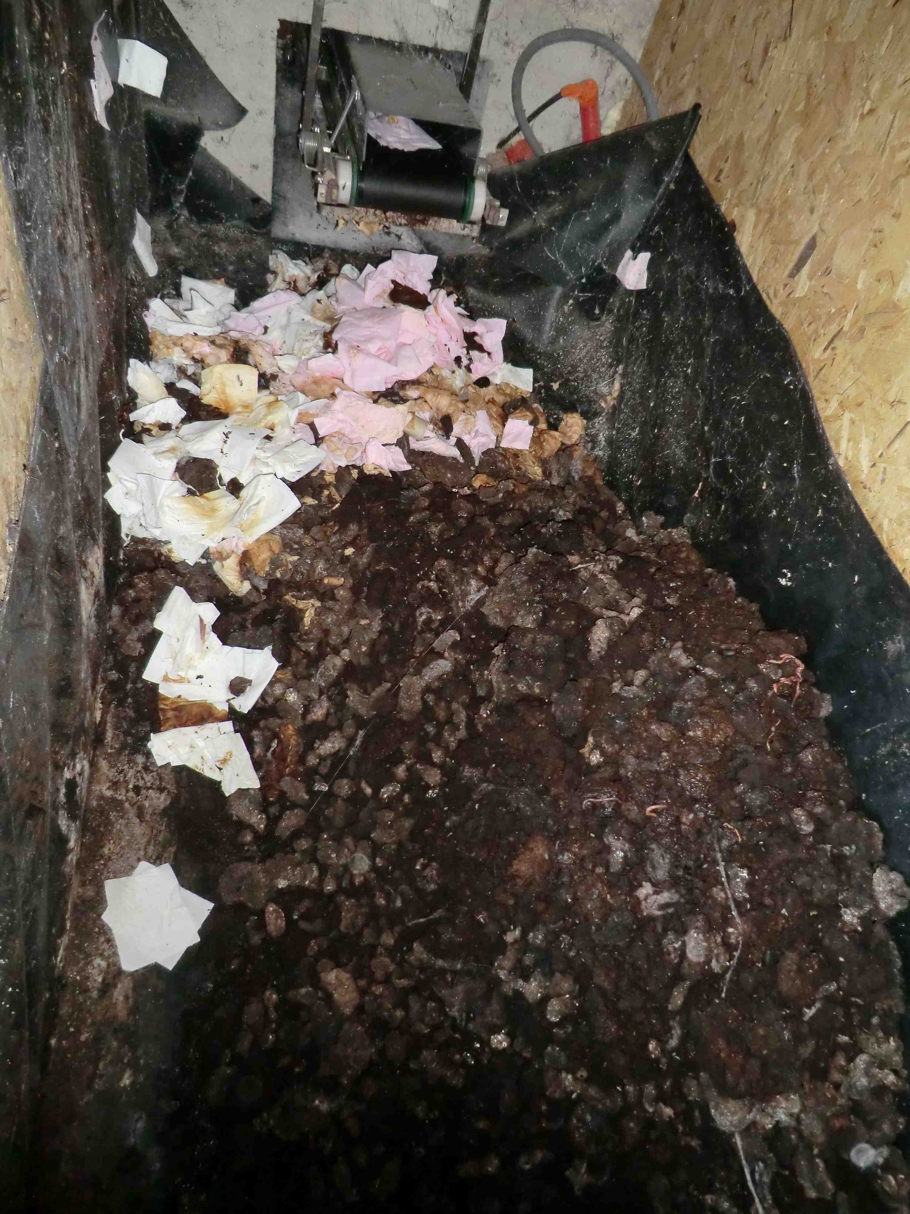 Zone A : fèces et papier toilettes Zone B : lombricompostage Area A : faeces and toilet paper Area B : vermi composting